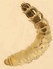 Stainton’s Natural History of the Tineina (1855–1873): Cauchas rufimitrella